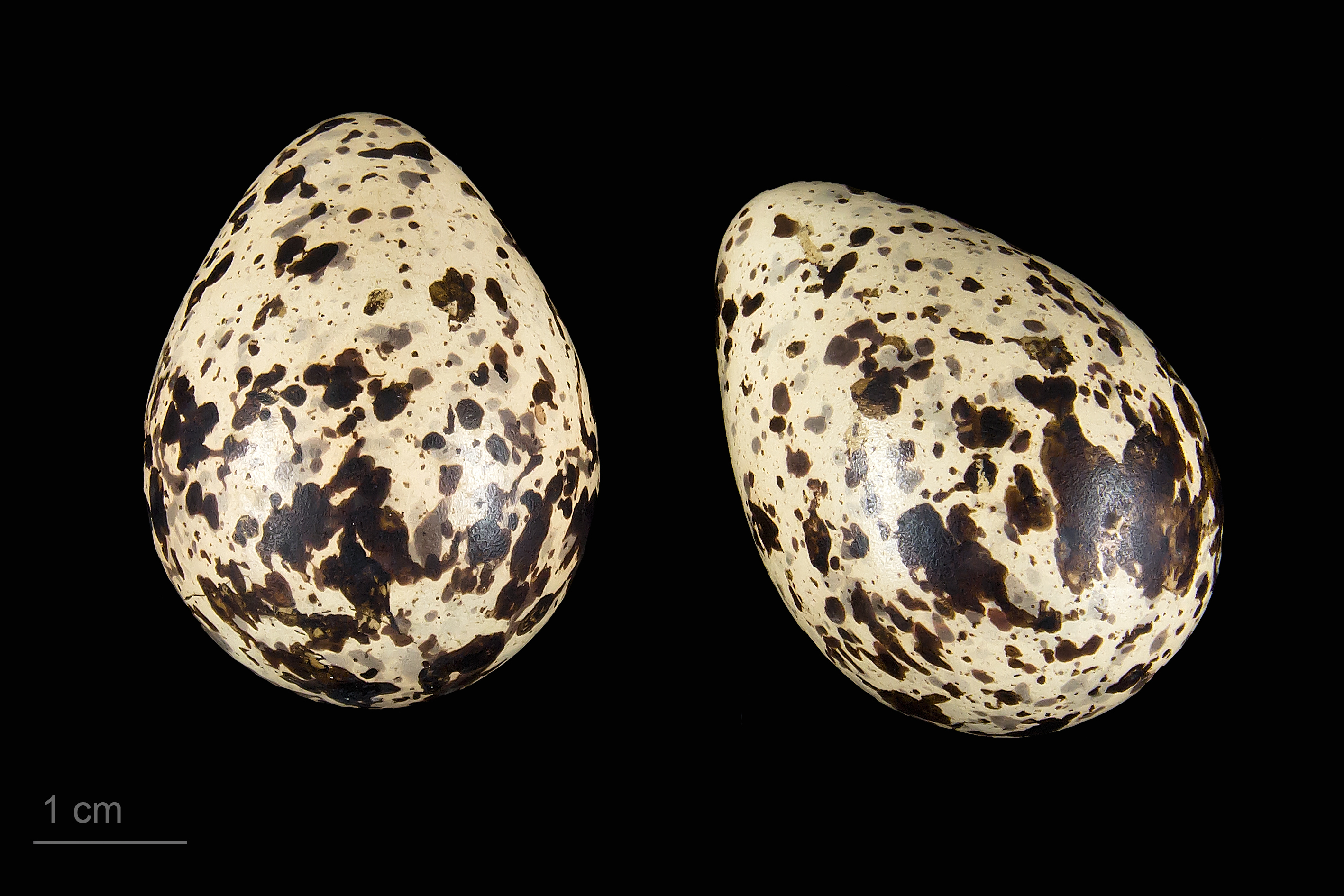 Eggs of marsh sandpipe Two specimens of the same spawn ; collection of Jacques Perrin de Brichambaut.